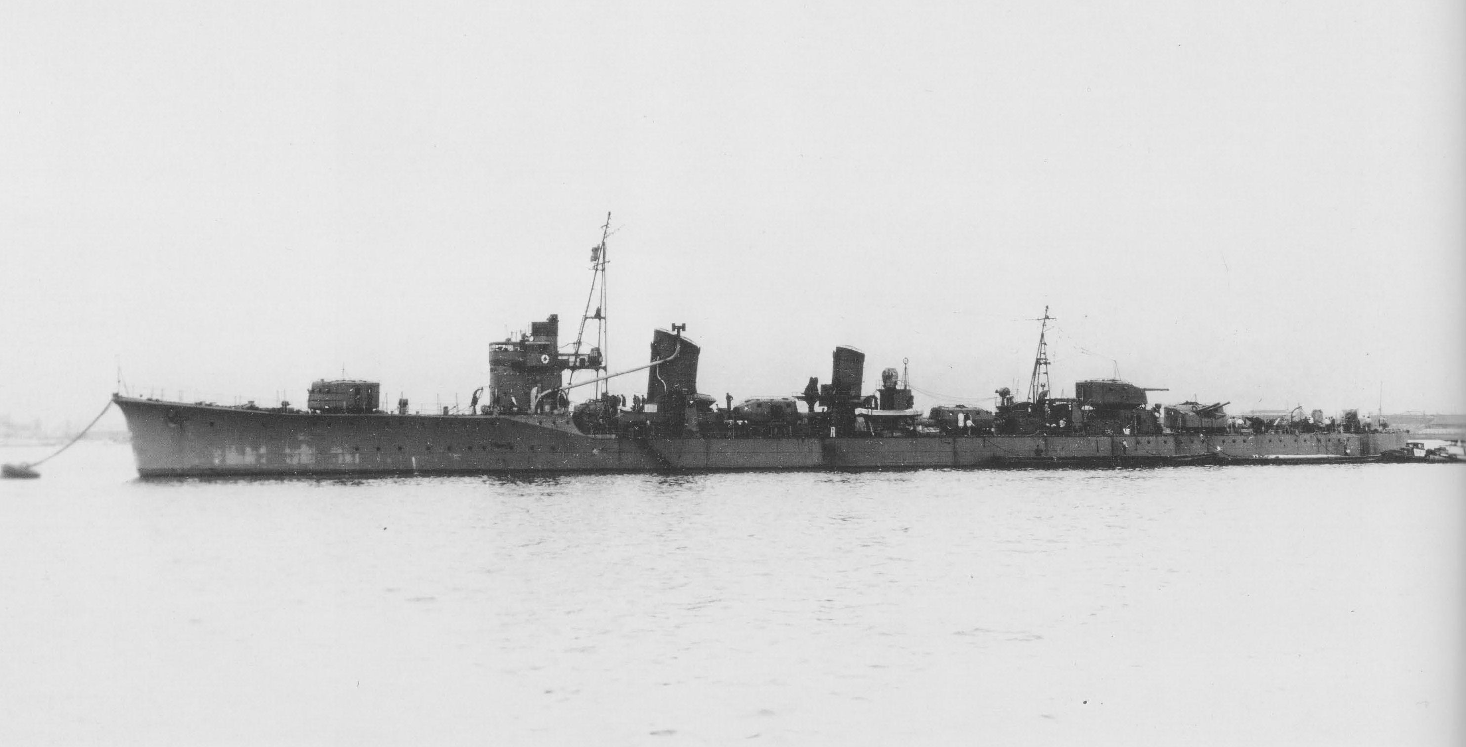 The Imperial Japanese Navy destroyer Tanikaze at anchor in April 1941. It was the second Japanese warship to bear that name.